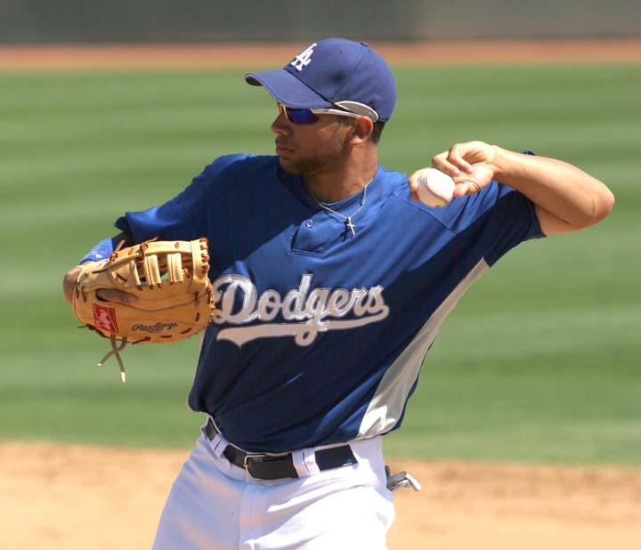 Description Dodgers first baseman James Loney during spring training in Arizona, 2008. DateMarch 2008SourceOwn workAuthorCraig Y. Fujii 01:51, 12 May 2008 . . Craigfnp . . 720×618 (76 KB) Dodgers first baseman James Loney during spring training in Arizona, 2008.